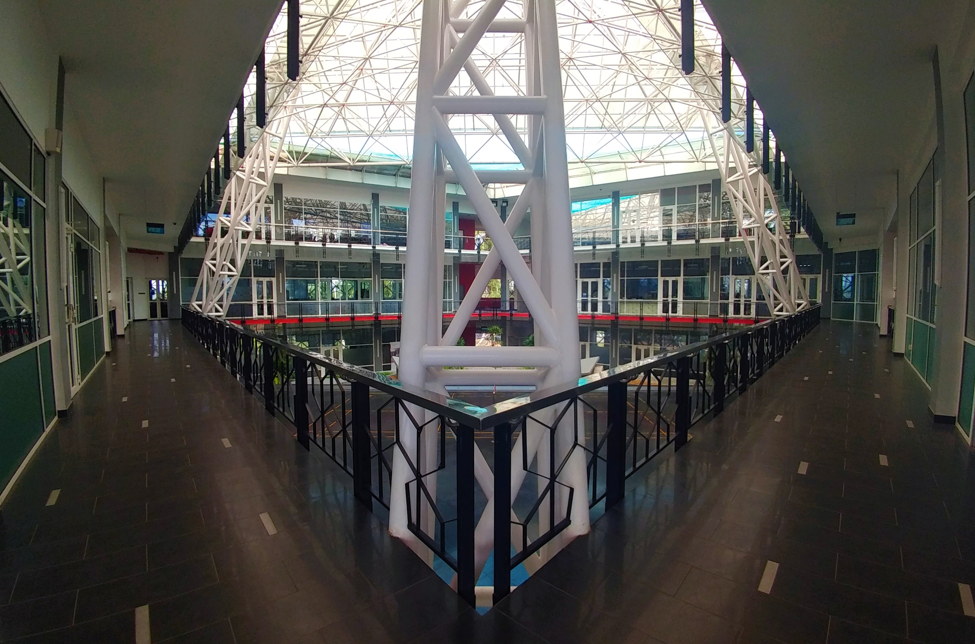 A photo of the interior of the Sri Lanka Institute of Nanotechnology, first floor mezzanine